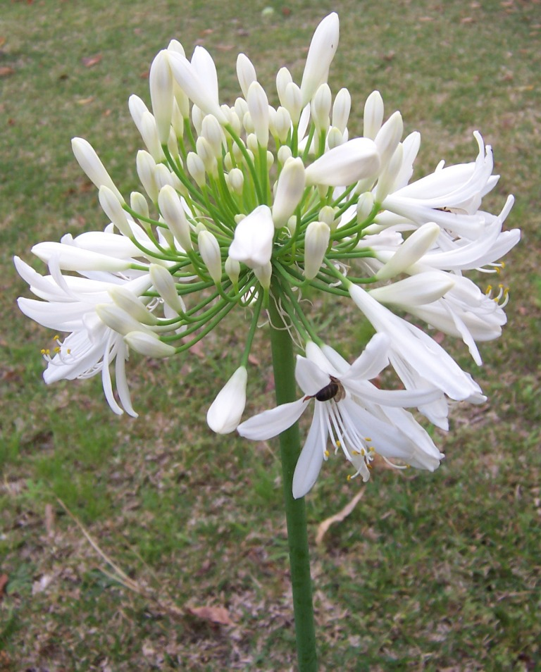 Agapanthus africanus (in a garden of Réunion island)